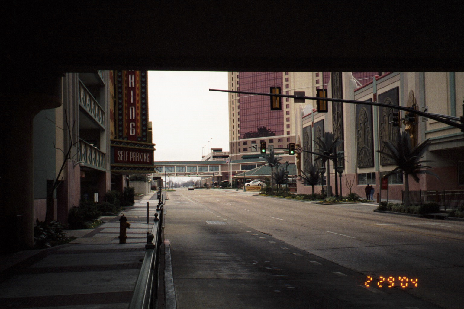 Shreveport riverfront district, 2004